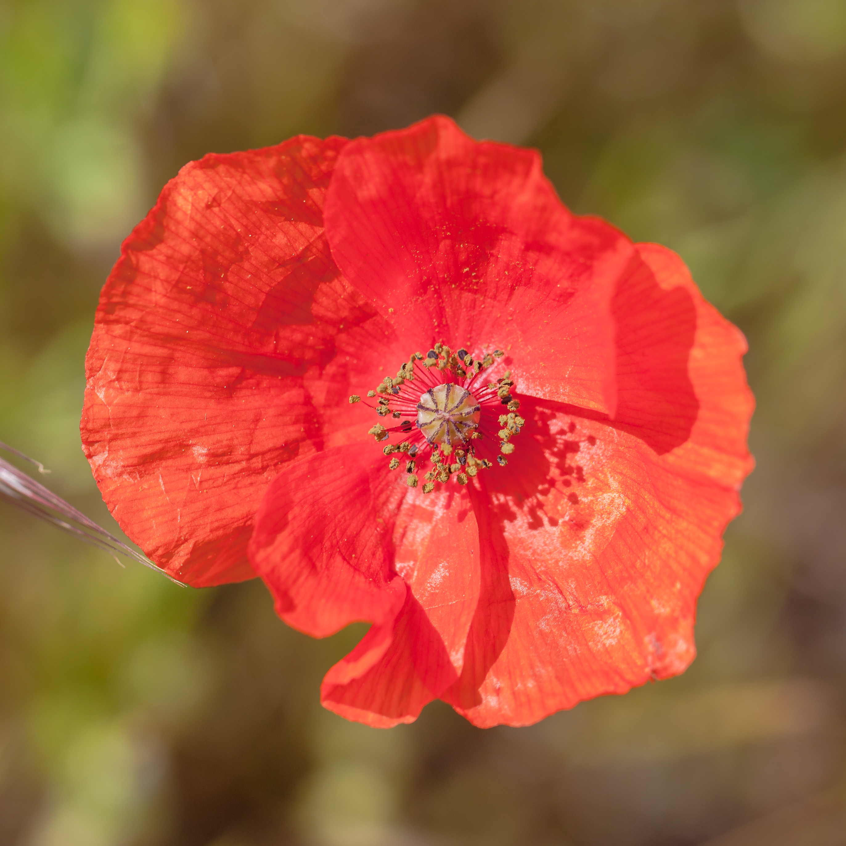 Papaver (Papaver rhoeas), Huermeda, Spain